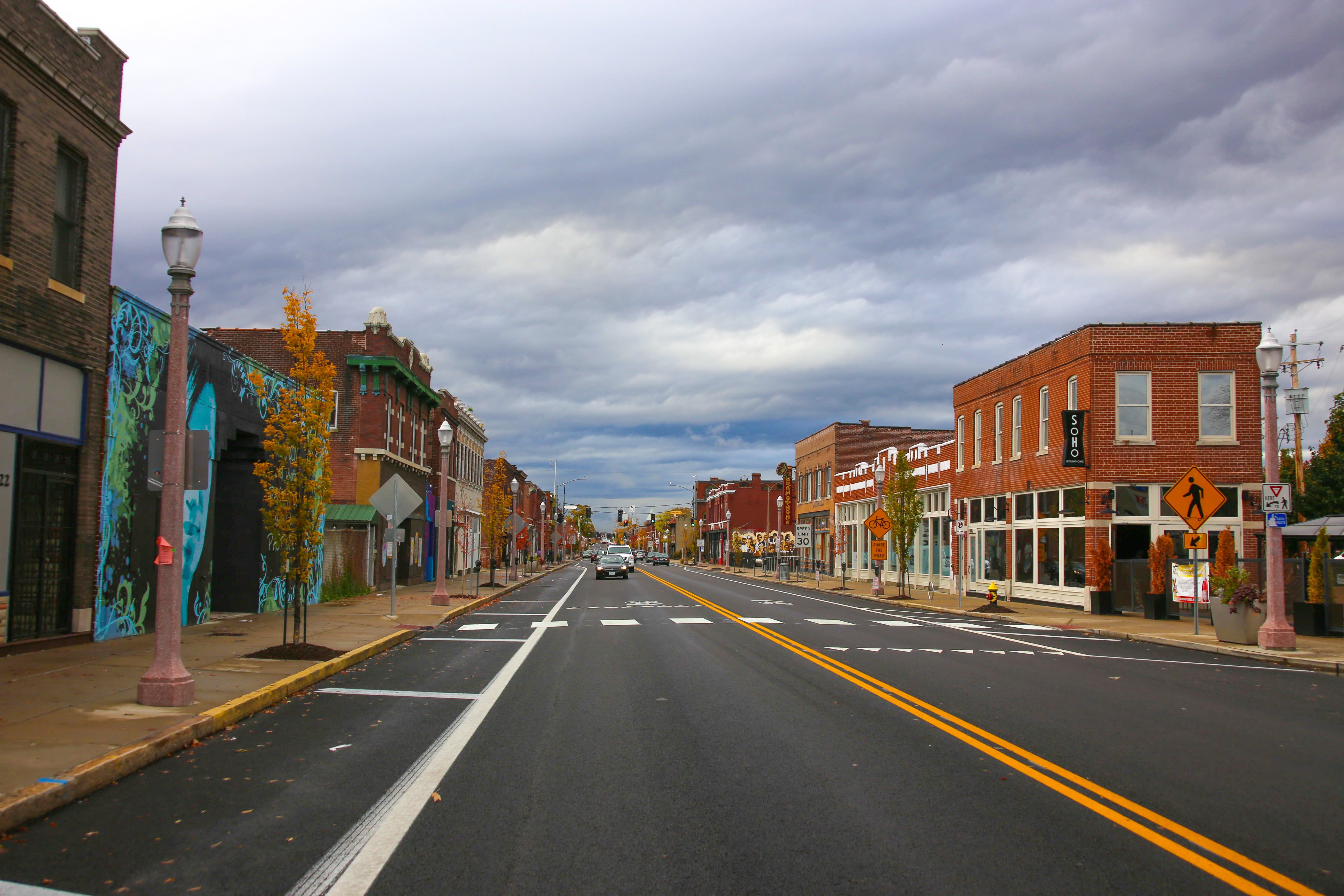 The Grove